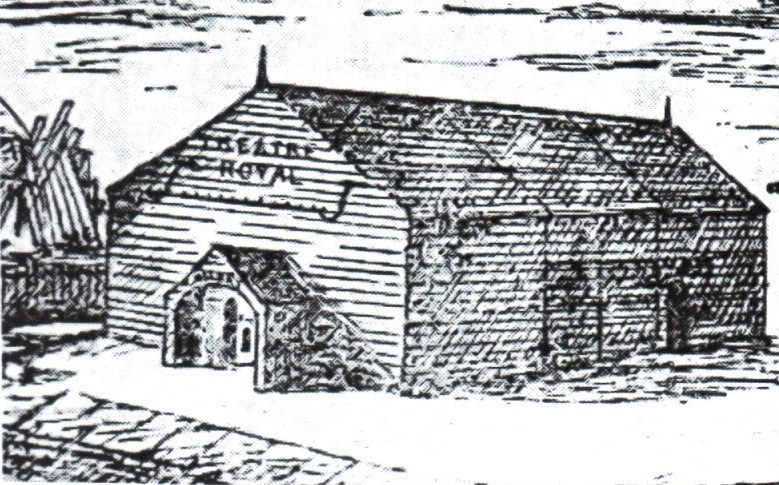 A period drawing of the first St. Helens Theatre Royal, a Victorian theatre of the late 19th Century